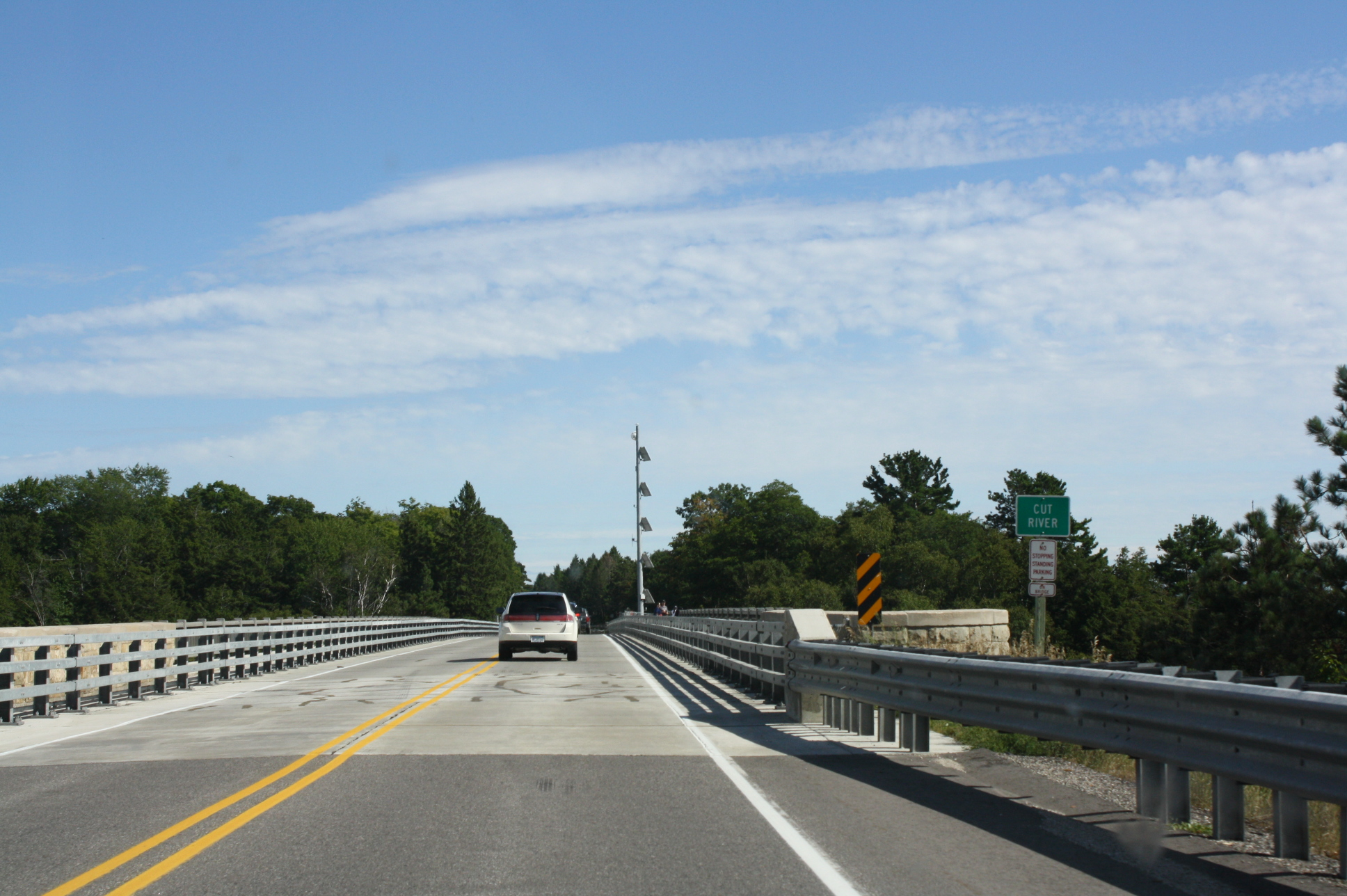 The centerline of the Cut River Bridge on U.S. Route 2 in Michigan.